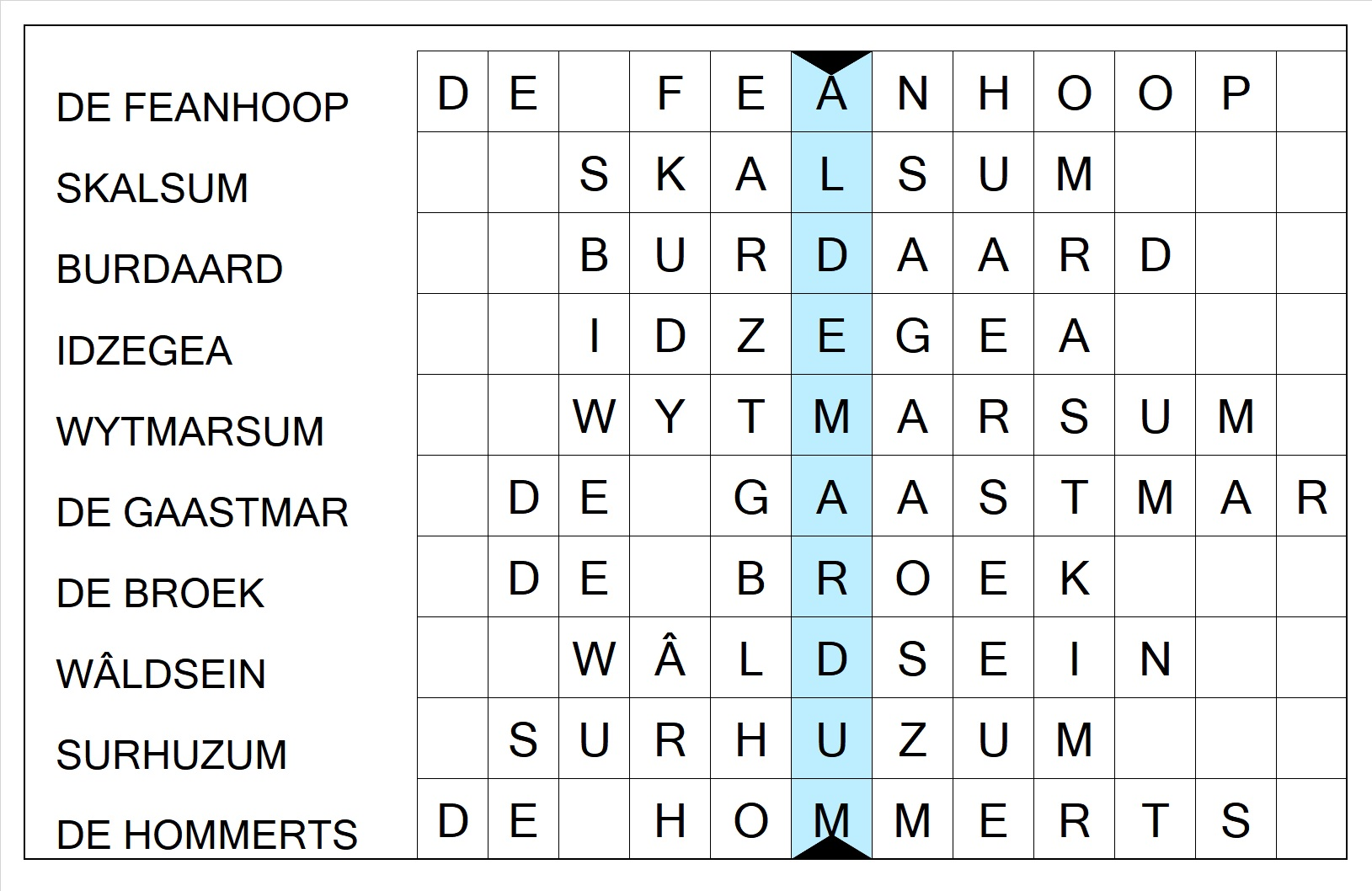 Fill-in puzzle Frisian